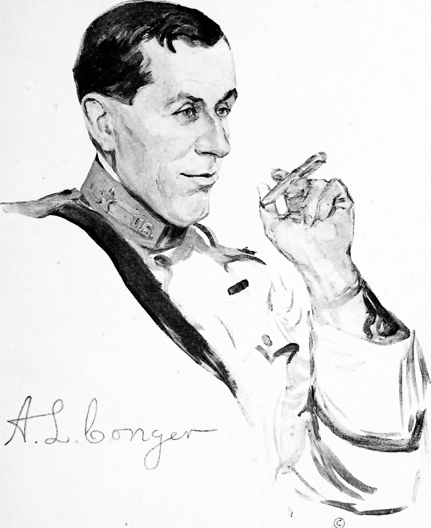 Title: Soldiers all; portraits and sketches of the men of the A. E. F. Year: 1920 (1920s) Authors: Chase, Joseph Cummings, 1878-1965 Subjects: United States. Army World War, 1914-1918 World War, 1914-1918 Publisher: New York, George H. Doran company Text Appearing Before Image: 1872. Distinguished Service Medal. For exceptionally meritorious and distin-guished services. As a member of the SecondSection, General Staff, General Headquar-ters, by his marked professional attainments,his zeal, and his sound judgment he contrib-uted largely to the successful operation of thissection. As chief of the Second Section, Gen-eneral Staff, of the 2d Division, during activeoperations, and later as commander of the 56thBrigade of the 29th Division during the Ar-gonne-Meuse offensive, he demonstrated hisgreat energy and his clear conception of tac-tics. G. O. 59 (May 3, 1919). SENIOR OFFICERS MESSArmy of Occupation: Colonel Alvan C. Read, Inspector General.Lieutenant Colonel Robert G. Peck, Assistant In-spector General.Major Charles H. Rice, Assistant Inspector General.Colonel Irvin L. Hunt, in Charge of Civil Affairs.Lieutenant Colonel Kyle Rucker, Judge Advocate.Lieutenant Colonel Nat. B. Barnwell, Assistant Judge Advocate.Major Roscoe D. Brown, Personnel Officer. (475 J Text Appearing After Image: .« y,K *f8V